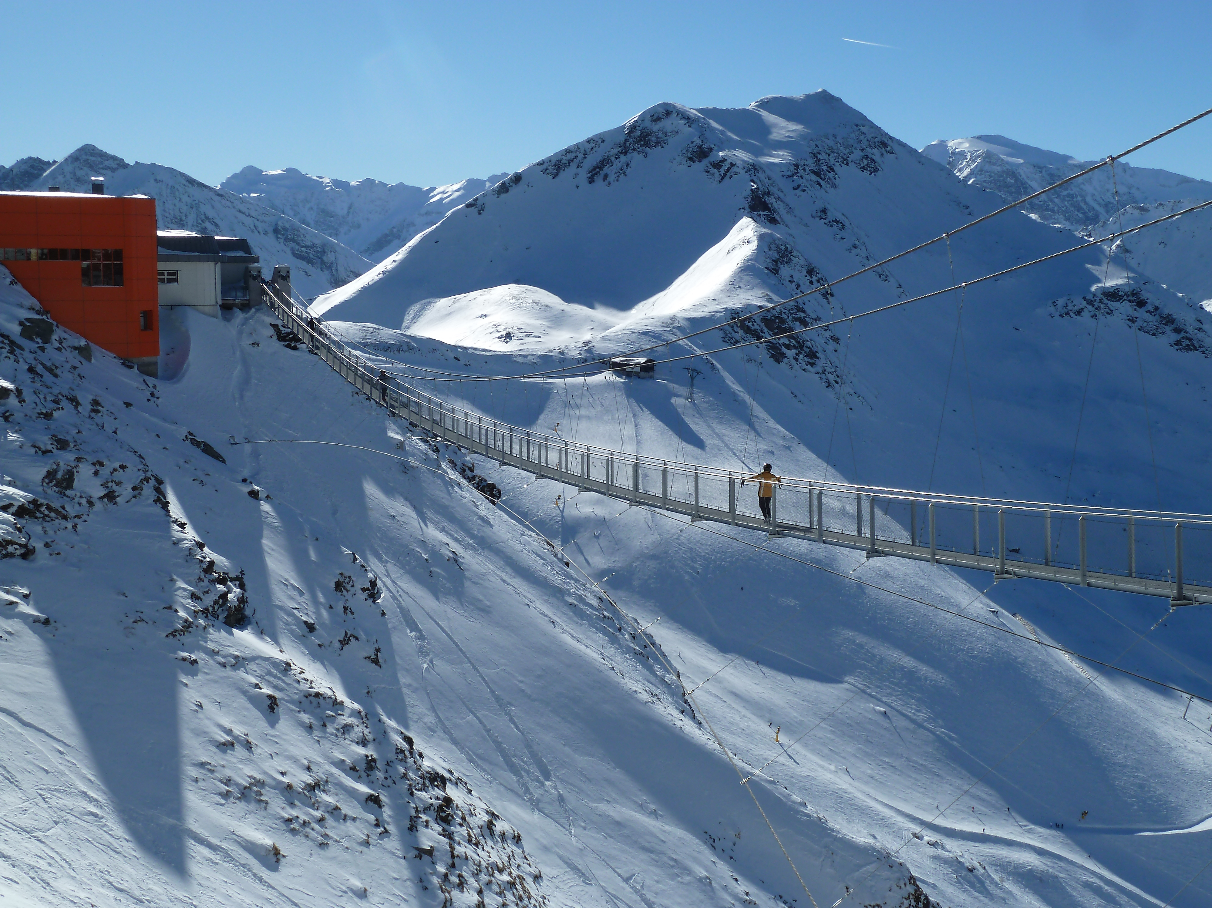 The suspension bridge from the upper station of the Gastein Stubner teleferic to the summit of the Stubnerkogel (2246 m).